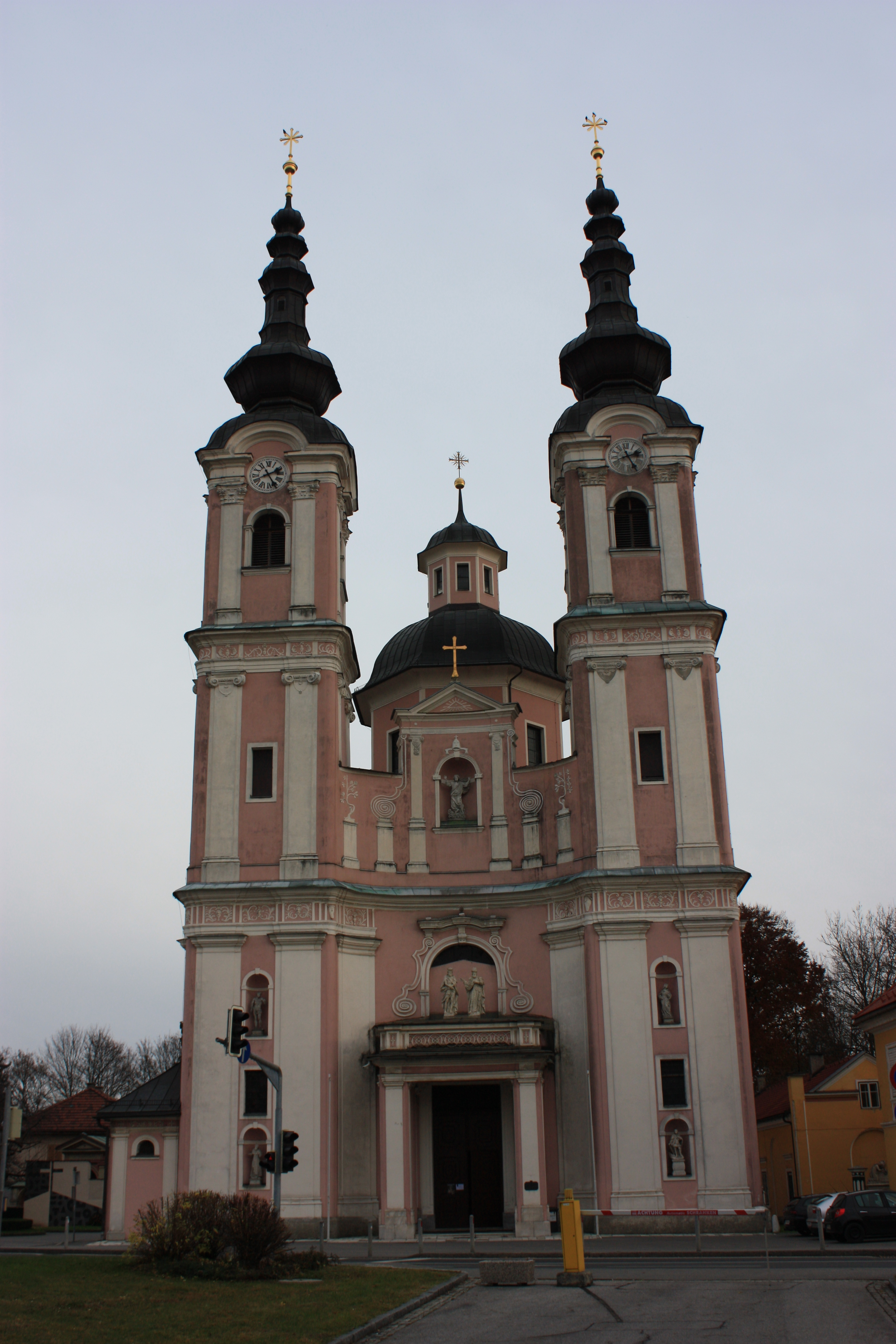 Parish church Holy cross Locality: Ossiacher Zeile Community:Villach